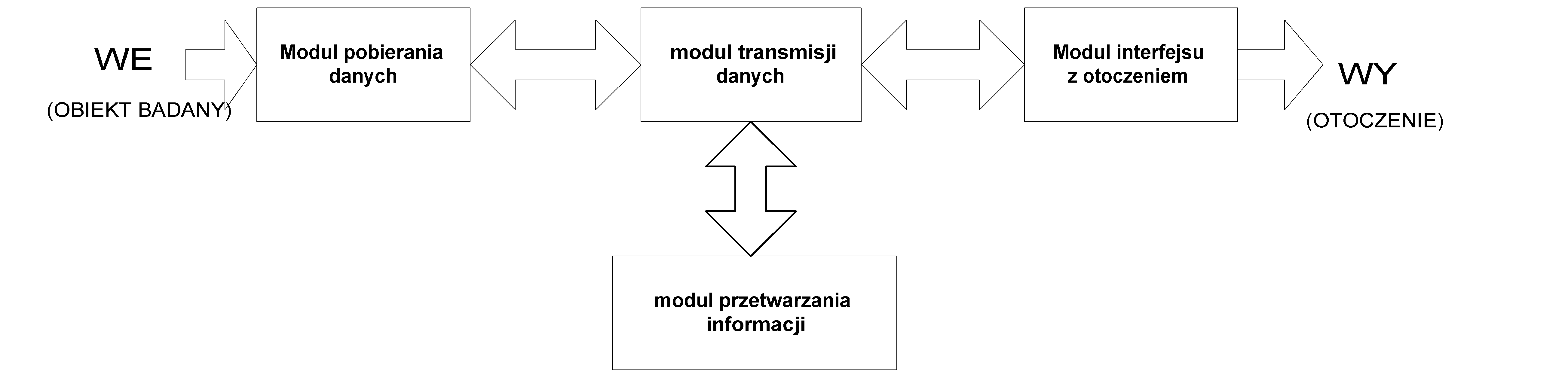 Structure of measure-control system - main control